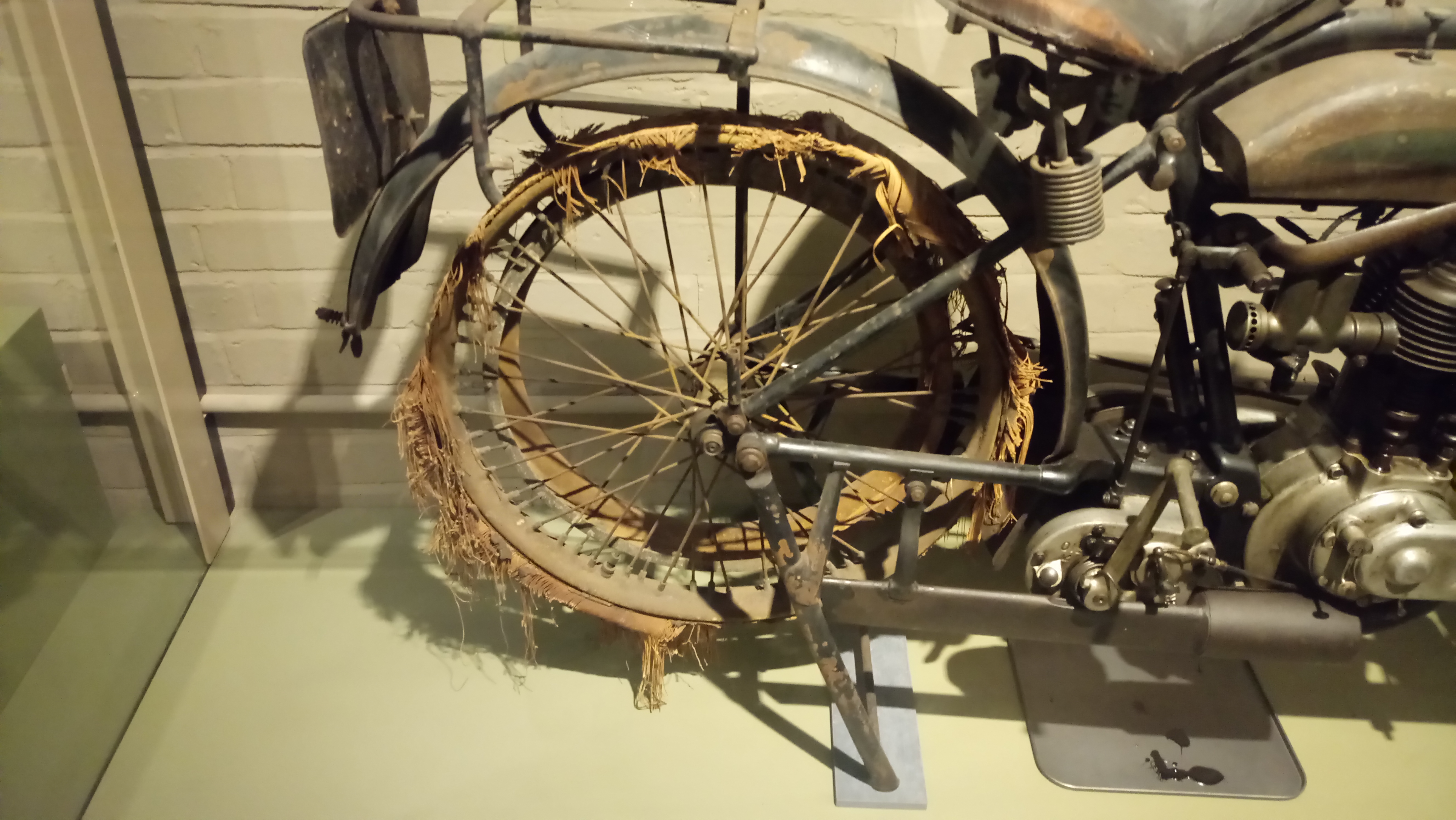 Rotten Triumph Model H wheel, diagonal textile cord visible. Photographed in Coventry Transport Museum, Coventry, GB.